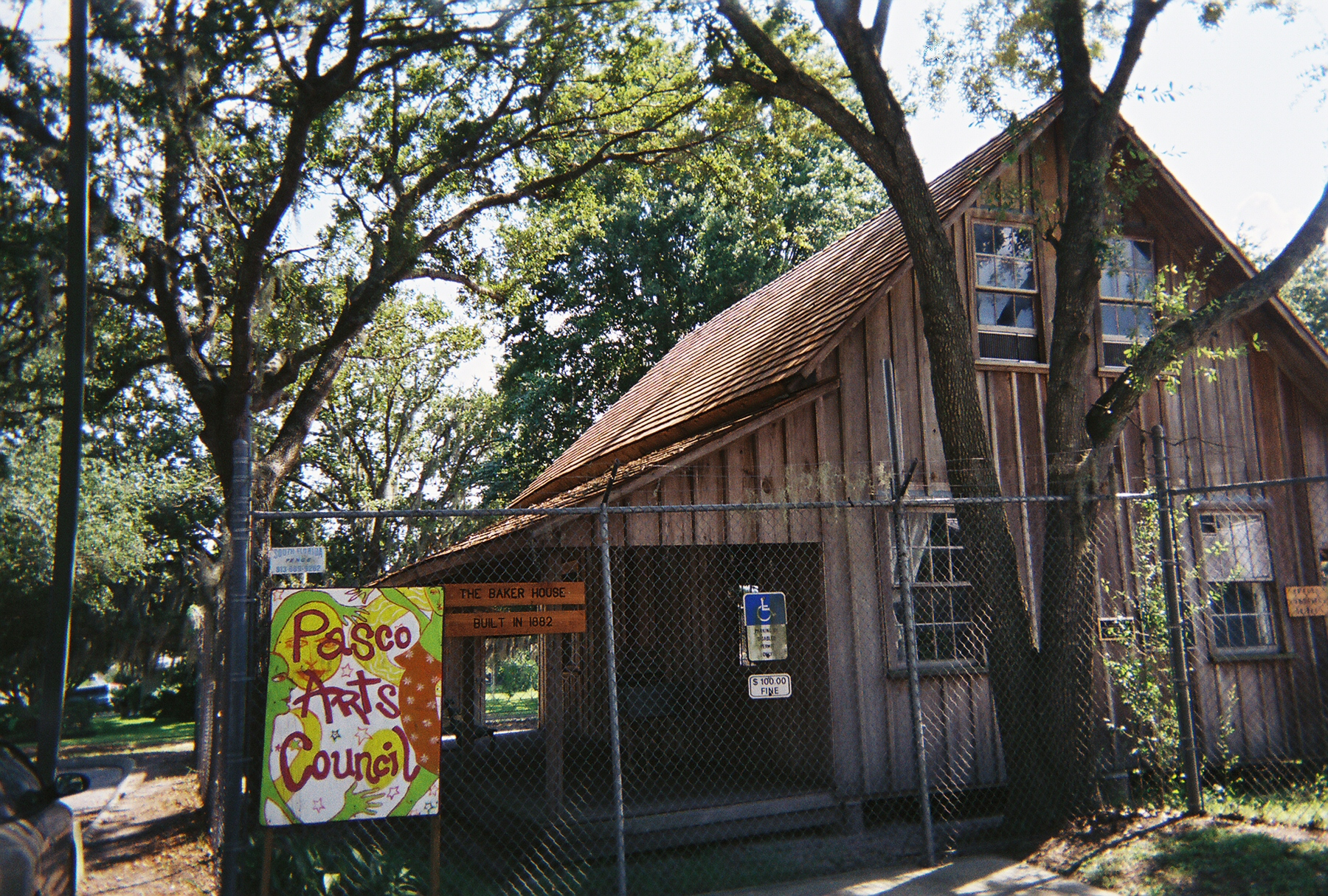 Shot of the historic Samuel Baker House in Elfers, Florida.